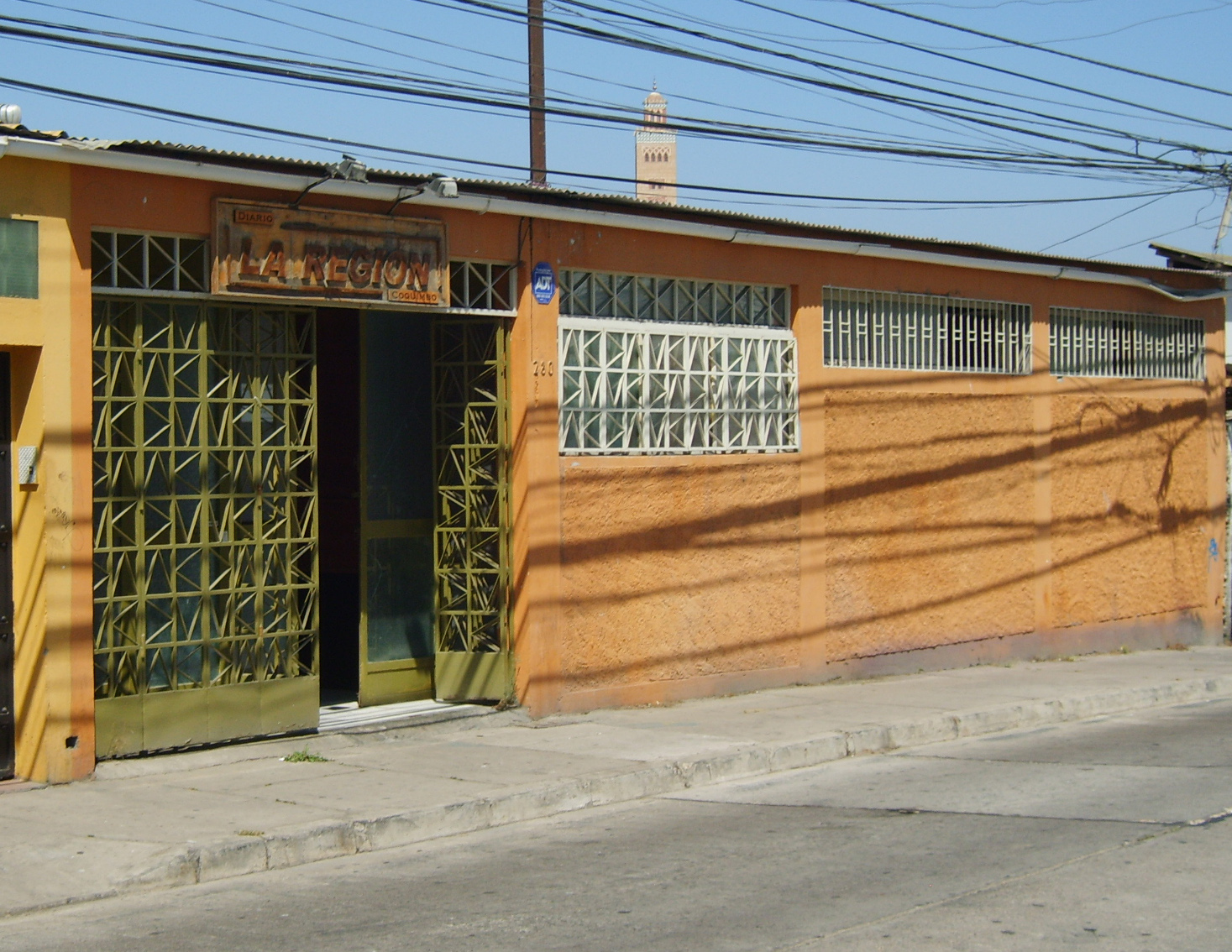 Headquarters of La Región newspaper in Coquimbo, Chile. Behind the building is seen part of the Coquimbo Mosque.